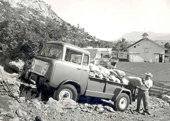 1950s Kaiser Jeep model FC-170 (Forward Control). The image shows the "cab forward" idea, also known as "forward control" as used in a non-passenger vehicle. The image was freely provided to promote this item with the intention that it be distributed for "free" by the media to the public. Used in Cab forward and Jeep Forward Control articles.